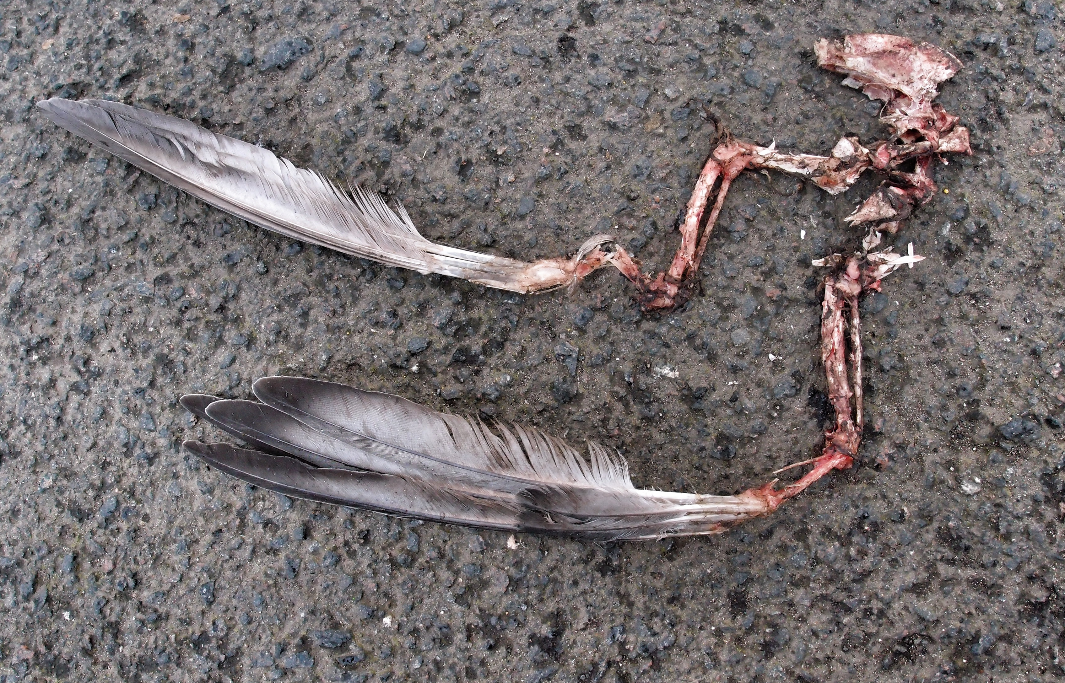 Pigeon breastbone and feathers left after avian strike. I had never seen something like this before. My bird friend pointed out the details, if you look closely you can make out the beak marks.